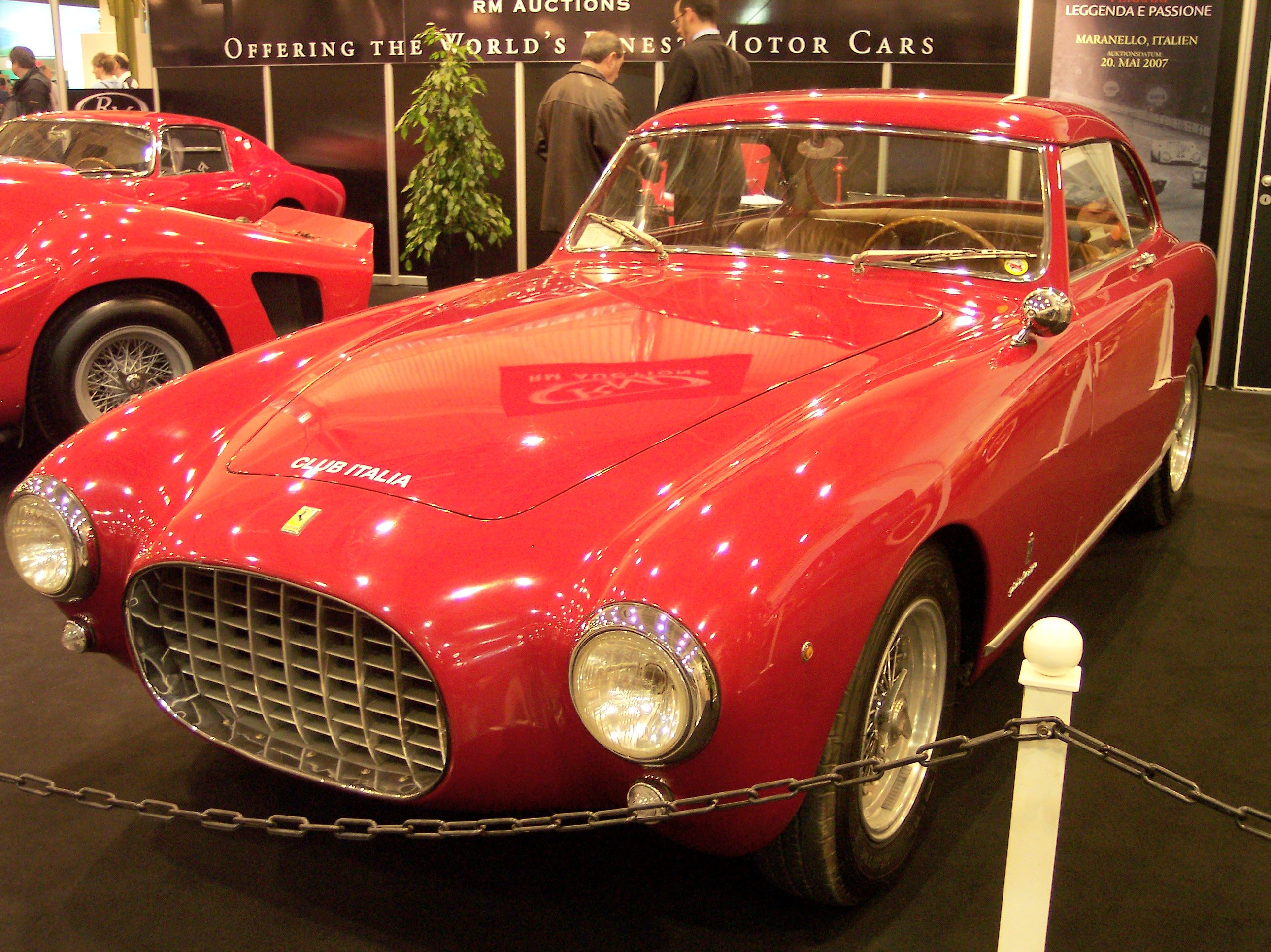 1953 Ferrari 212 Inter Coupe by Pininfarina.[1] This is chassis number #0275EU.[2][3] Auctioned as part of Giuseppe Prevosti's collection for £264,000 in 2007.[4]